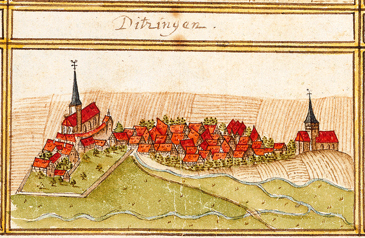 View of Ditzingen from the forest register books created by Andreas Kieser